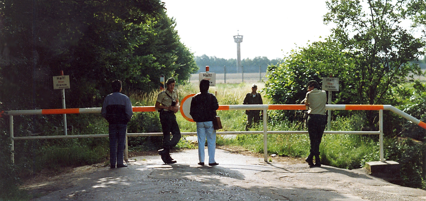 (Original description by author) Lübeck remained part of Schleswig-Holstein after the war and was situated directly at the inner German border during the division of Germany into two rival states during the Cold War period. South of the city the border followed the path of the river Wakenitz that separated both countries by less than 10 m in many parts. The northernmost border crossing was in Lübeck's district of Schlutup. My historical picture here shows the former border between Lübeck and "German Democratic Republic" with the little village Herrnburg in Mecklenburg. Behind the border barrier we can see an East German border-soldier of the "National Peoples' Army", and behind him one of the several watch towers to guard the border against those attempting to escape. On this side of the border are two officers of the West German Frontier Police (Bundesgrenzschutz), today called Federal Police (Bundespolizei).